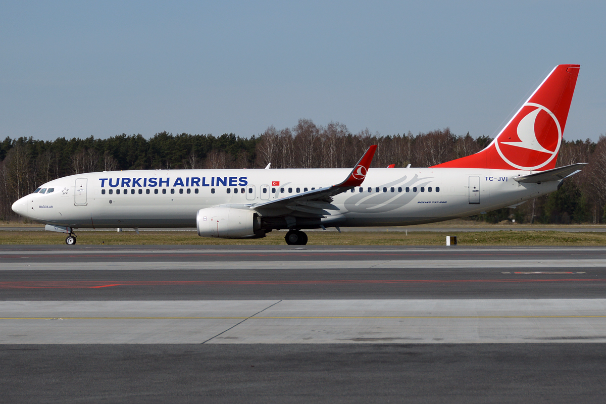 Turkish Airlines, TC-JVI, Boeing 737-8F2